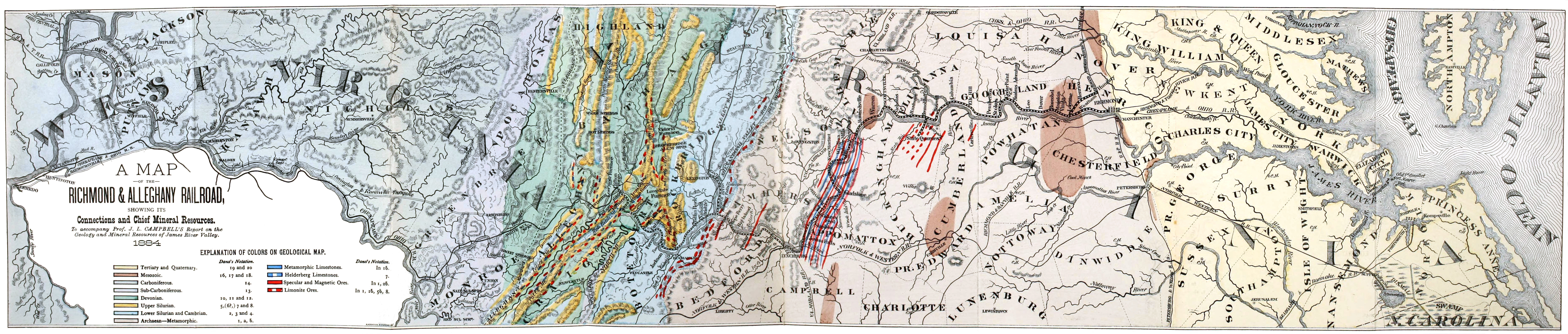 1884 Map of the Richmond and Alleghany Railroad overlaid on a geological map of its route and connecting routes. The railroad operated from 1880 to 1888.